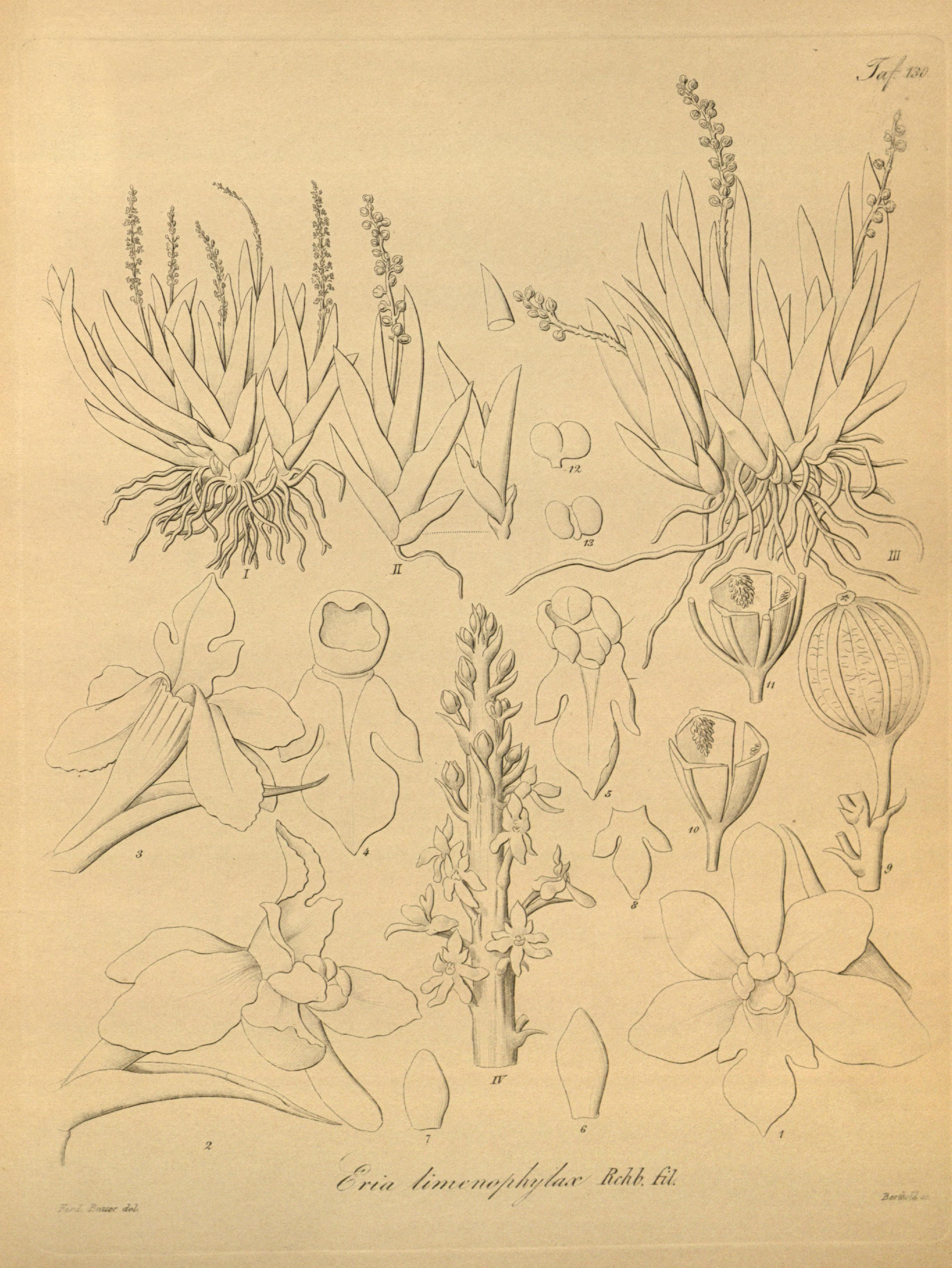 Illustration of Phreatia limenophylax (as syn. Eria limenophylax)